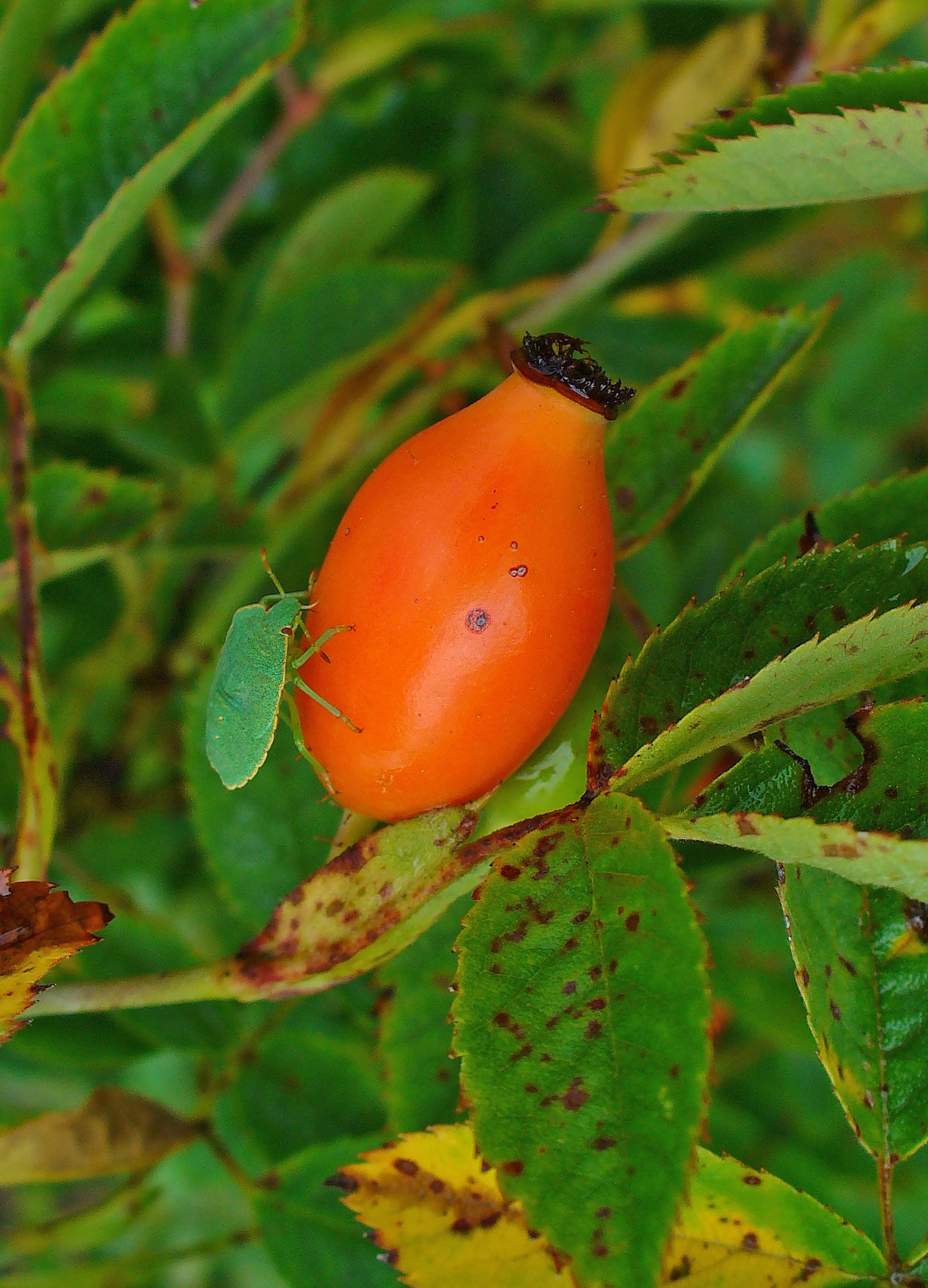 Rosa x centifolia, Rosaceae, Provence Rose, Cabbage Rose, Rose de Mai, fruit. Botanical Garden KIT, Karlsruhe, Germany.